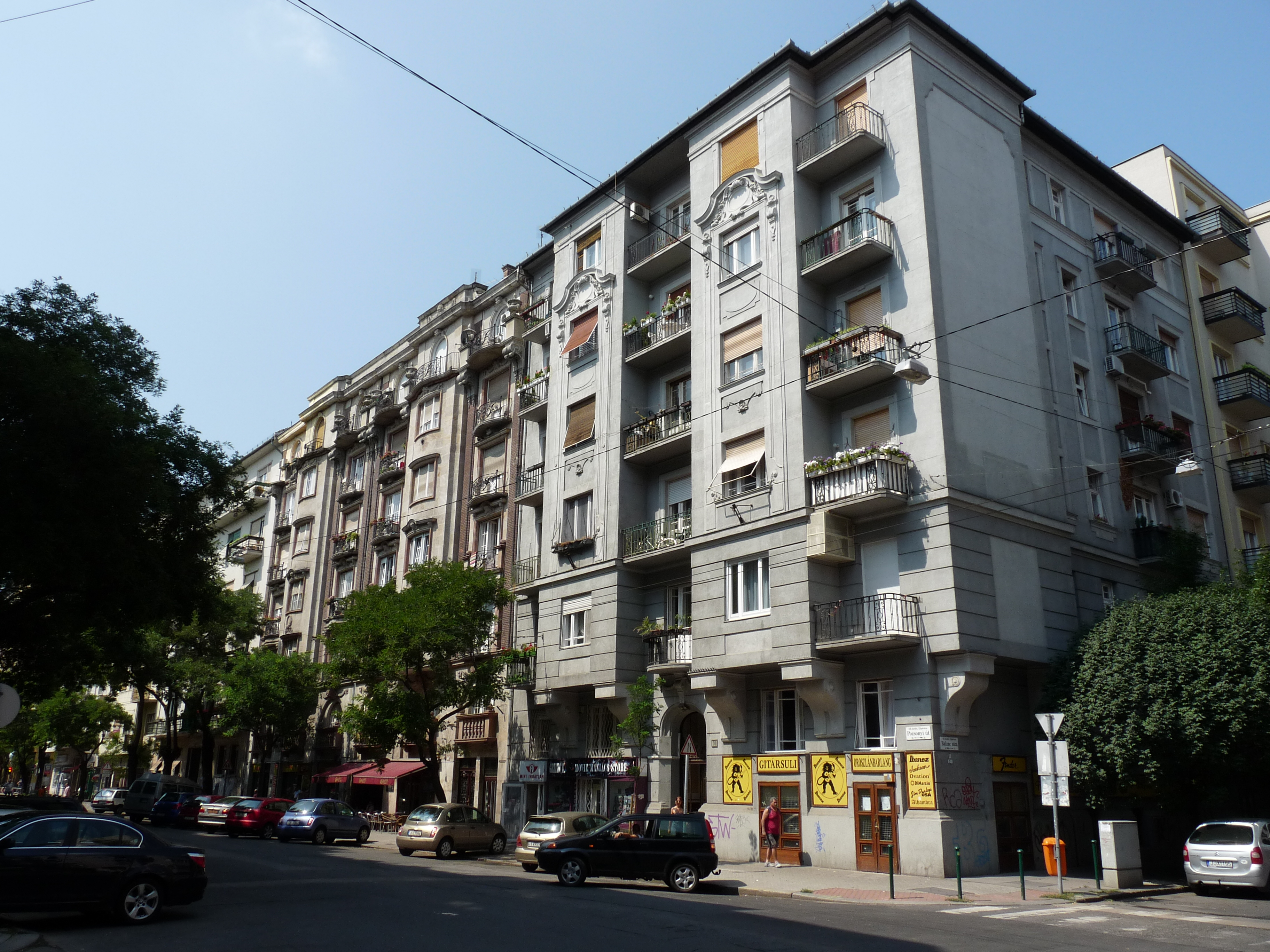 Pozsonyi street and Balzac street corner in the 13th district of Budapest